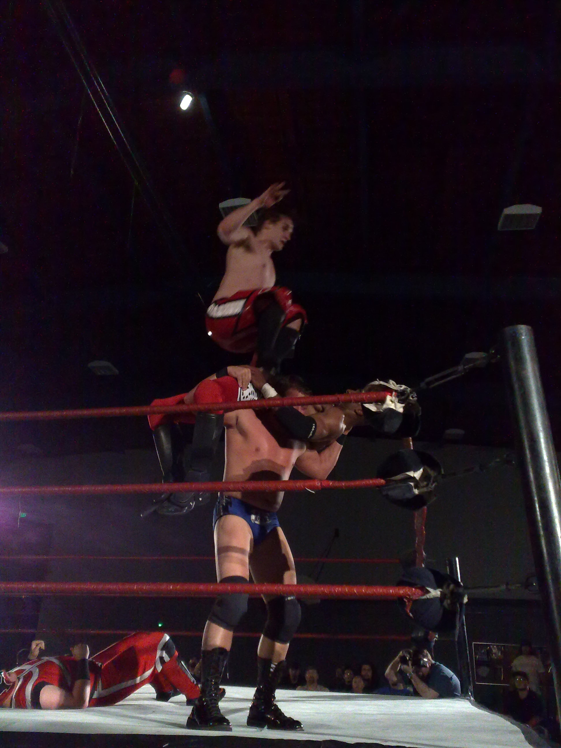 Professional wrestlers Jack Evans and Roderick Strong performing their tag team finishing move, Ode to the Bulldogs, on Scorpio Sky at Pro Wrestling Guerrilla's DDT4 Night 1 show on May 17, 2008.